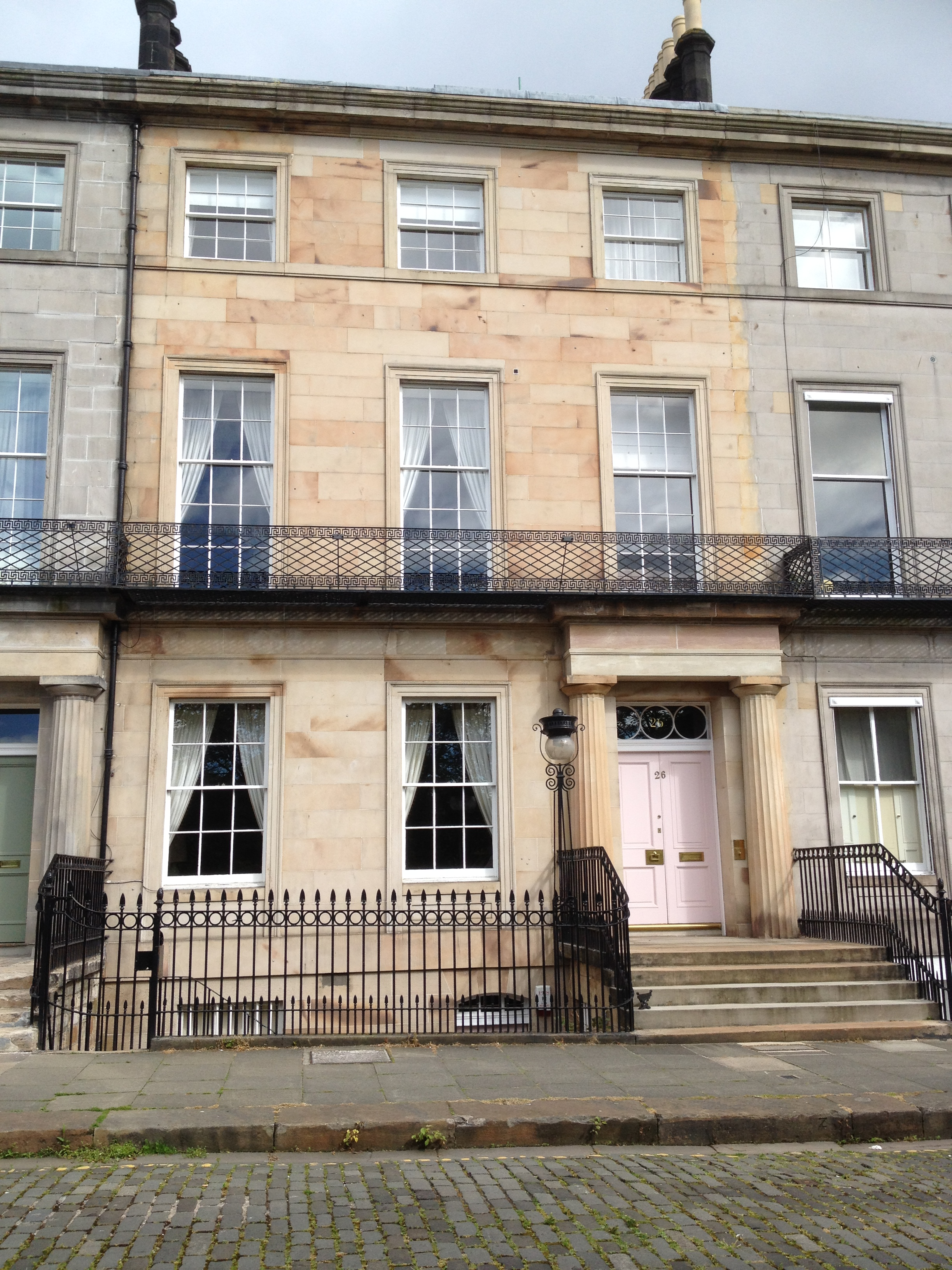 26 Regent Terrace , Edinburgh Wikidata has entry Q17567430 with data related to this item.